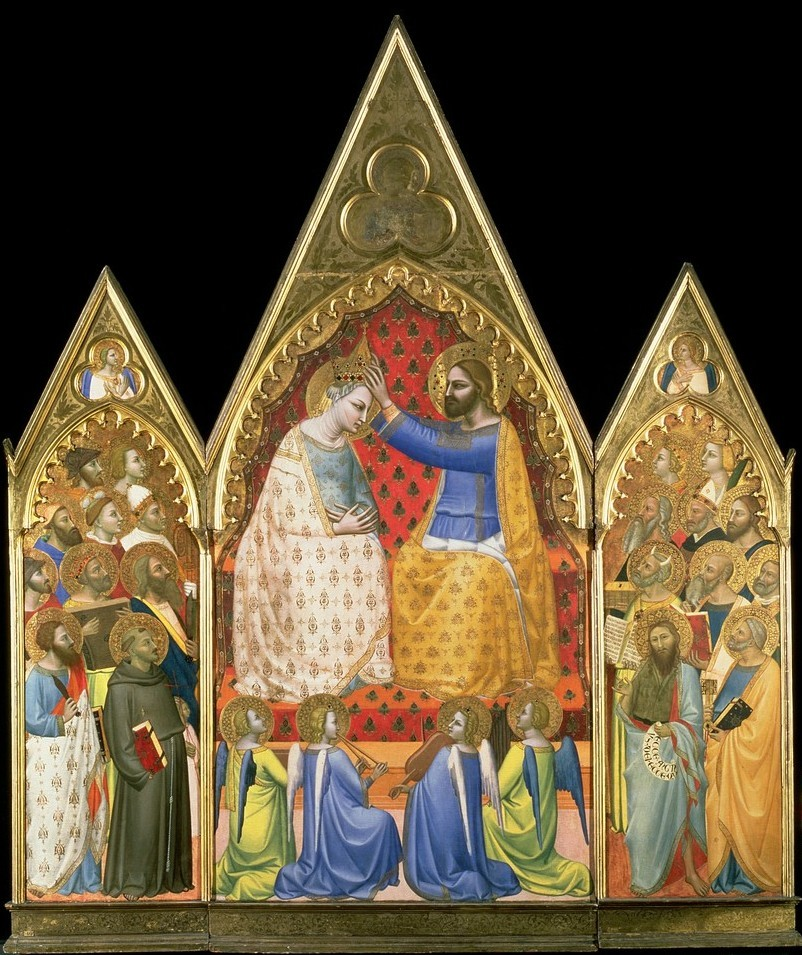 Allegretto Nuzi. Coronation of the Virgin, ca. 1350. Southampton City Art Gallery.